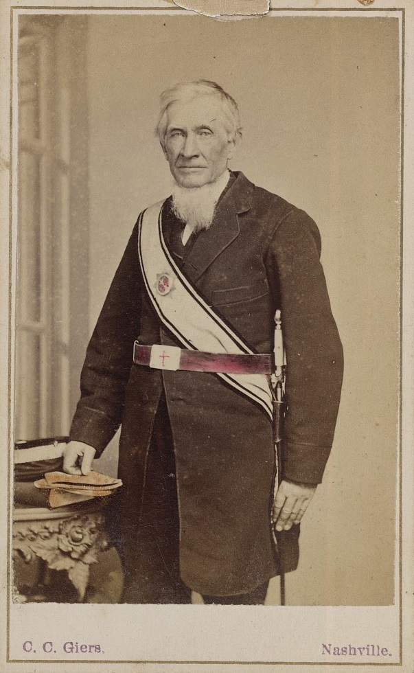 Confederate Congressman James McCallum (1806–1889)